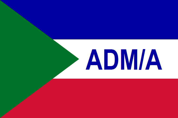 Flag of the Allied Democratic Forces (Uganda)